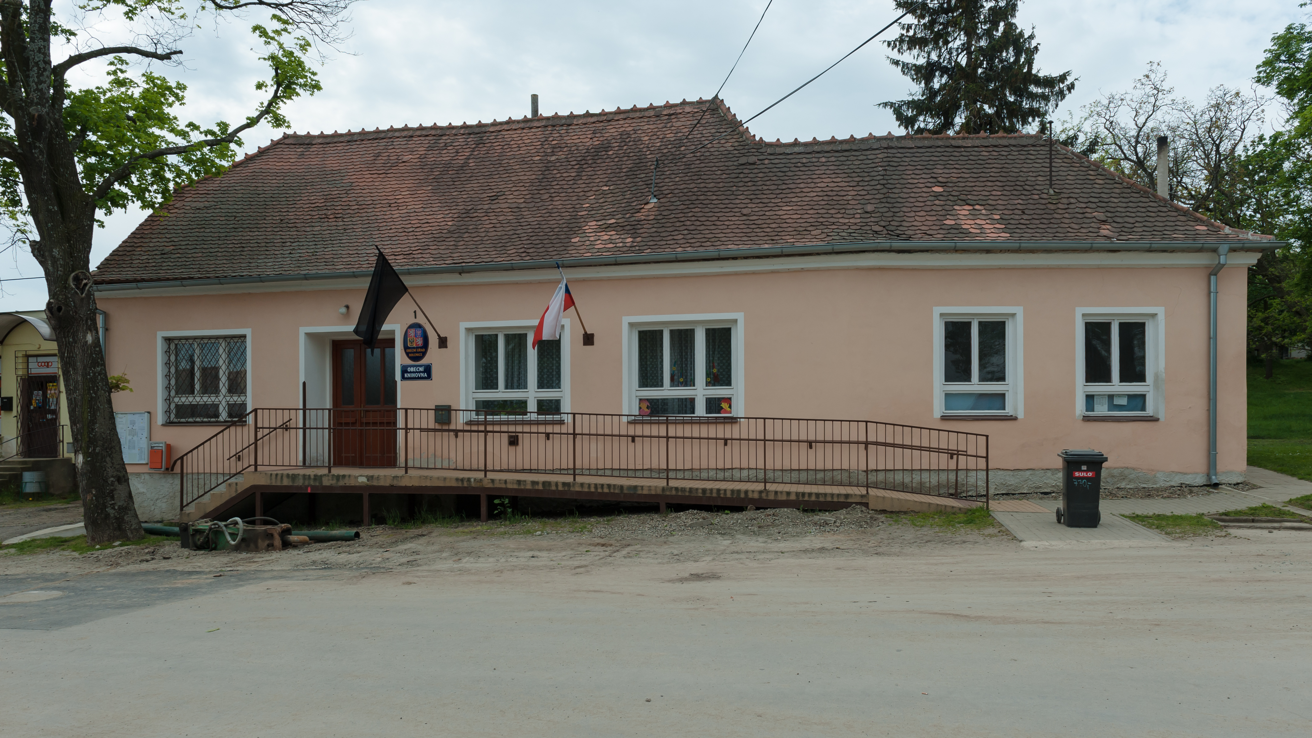 Wikitown Hustopeče: Dolenice